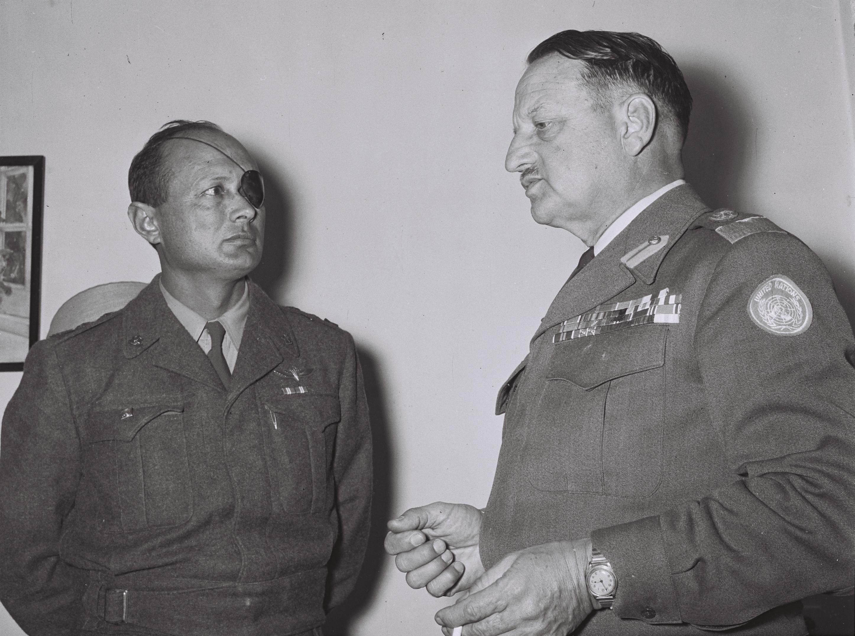 Moshe Dayan meeting ELM Burns, head of the UN observers team, at Lod airport. 1957